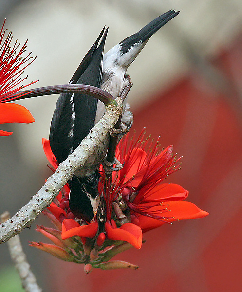 Asian Pied Starling Sturnus contra in Kolkata, West Bengal, India.